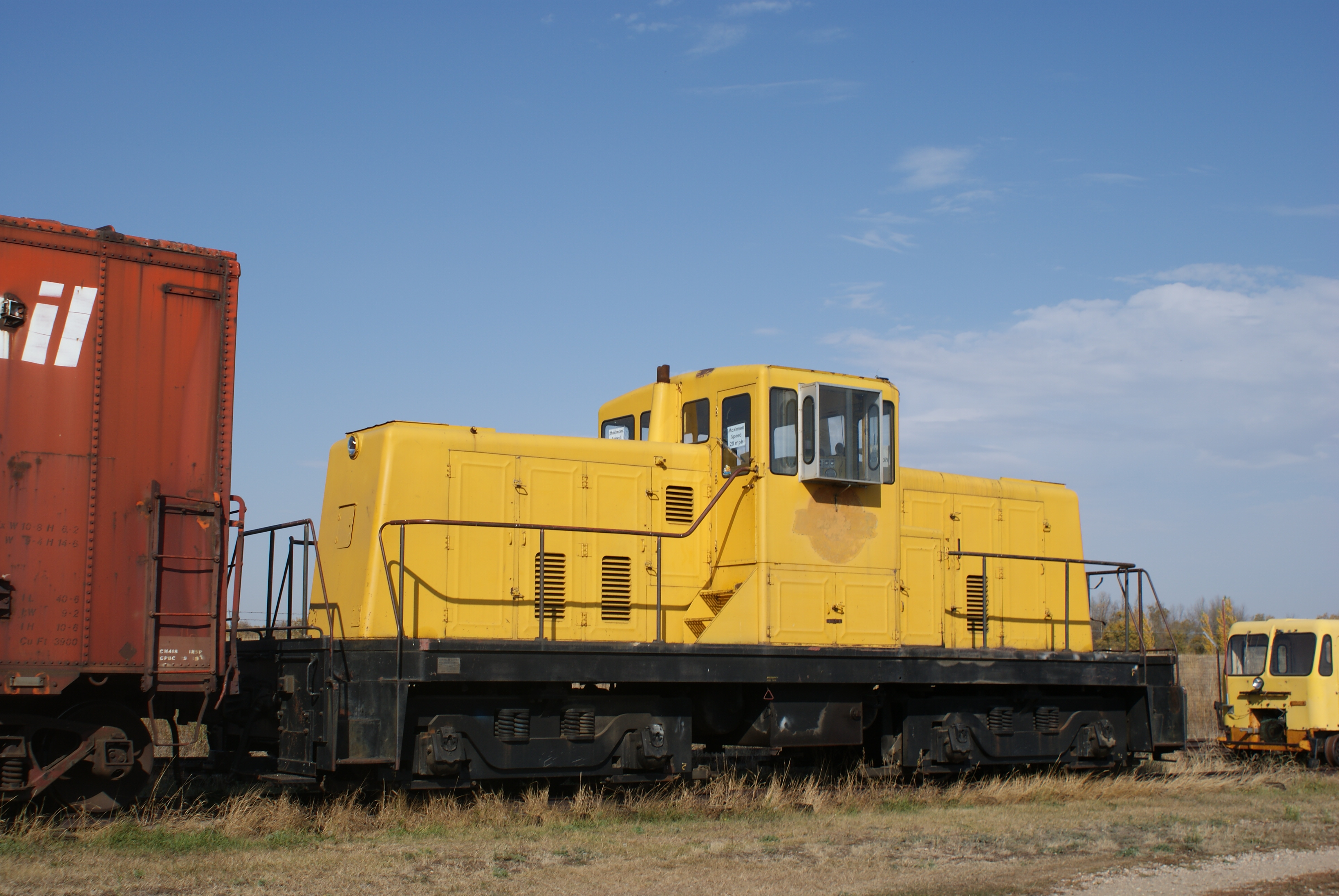 Locomotive at the Saskatchewan Railway Museum